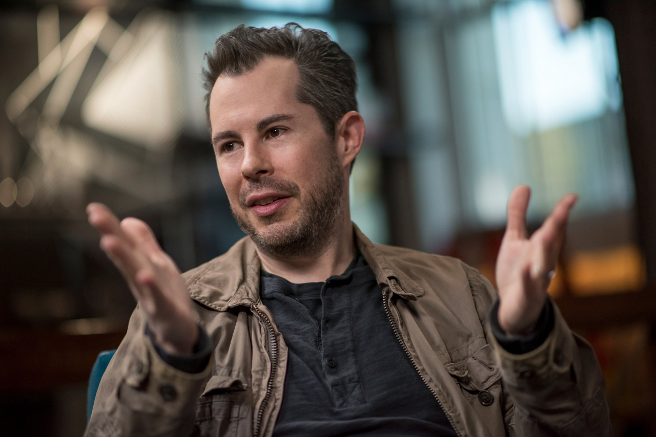 Bill Maris, founder of venture fund Section 32 and former chief executive officer of GV, formerly Google Ventures, speaks during an interview in San Francisco, California, U.S., on Thursday, Feb. 25, 2016. Maris founded the $150 million fund in which he’ll be the sole investor and will focus on a wide variety of technology startups. Photographer: David Paul Morris